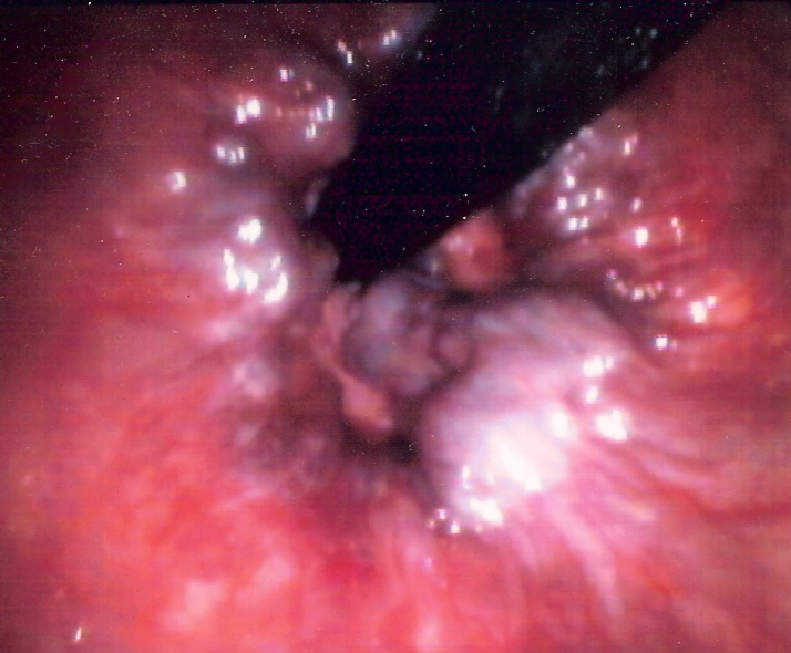 Endoscopic image of hemorrhoids seen on retroflexion of the flexible sigmoidoscope at the ano-rectal junction. Released into public domain on permission of patient. Please keep disclaimer on.